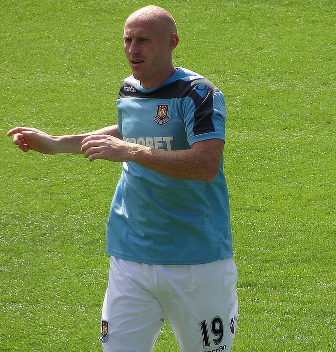 West Ham United player, James Collins, warming-up before the first game of his second spell with the club, against his former club Aston Villa at The Boleyn Ground, August 2012